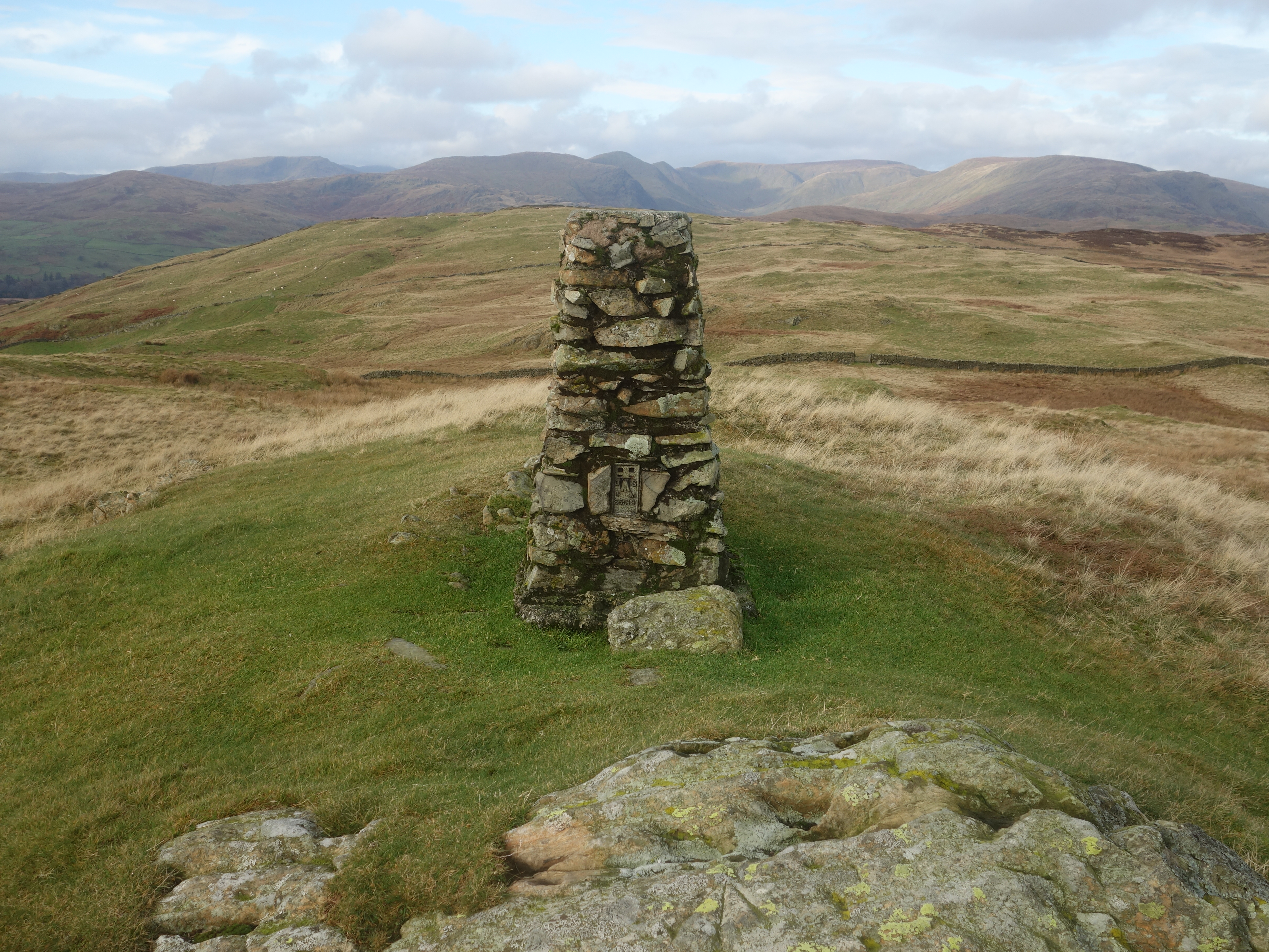 The trig point on the summit of Brunt Knott (on Potter Fell)